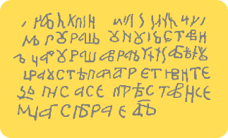 The inscription on the gravestone Prevlaka - Đuraš Ilic (Ilijić) leader King Stefan Uroš III Nemanjić (Stefan of Dečani) and military leaders (the third knight) of Emperor Stefan Uroš IV Dušan. Tomb in the Prevlaka. Srpski (latinica): Natpis sa nadgrobne ploče na Prevlaci - Đuraša Ilića (Ilijića) čelnika kralja Stefana Dečanskog i vojskovođe (trećeg viteza) cara Dušana.